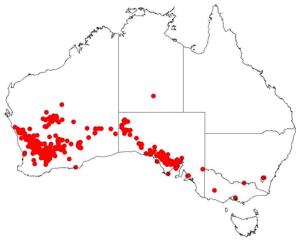 Hakea francisiana Occurrence data downloaded from Australasian Virtual Herbarium on 22 November 2018 using